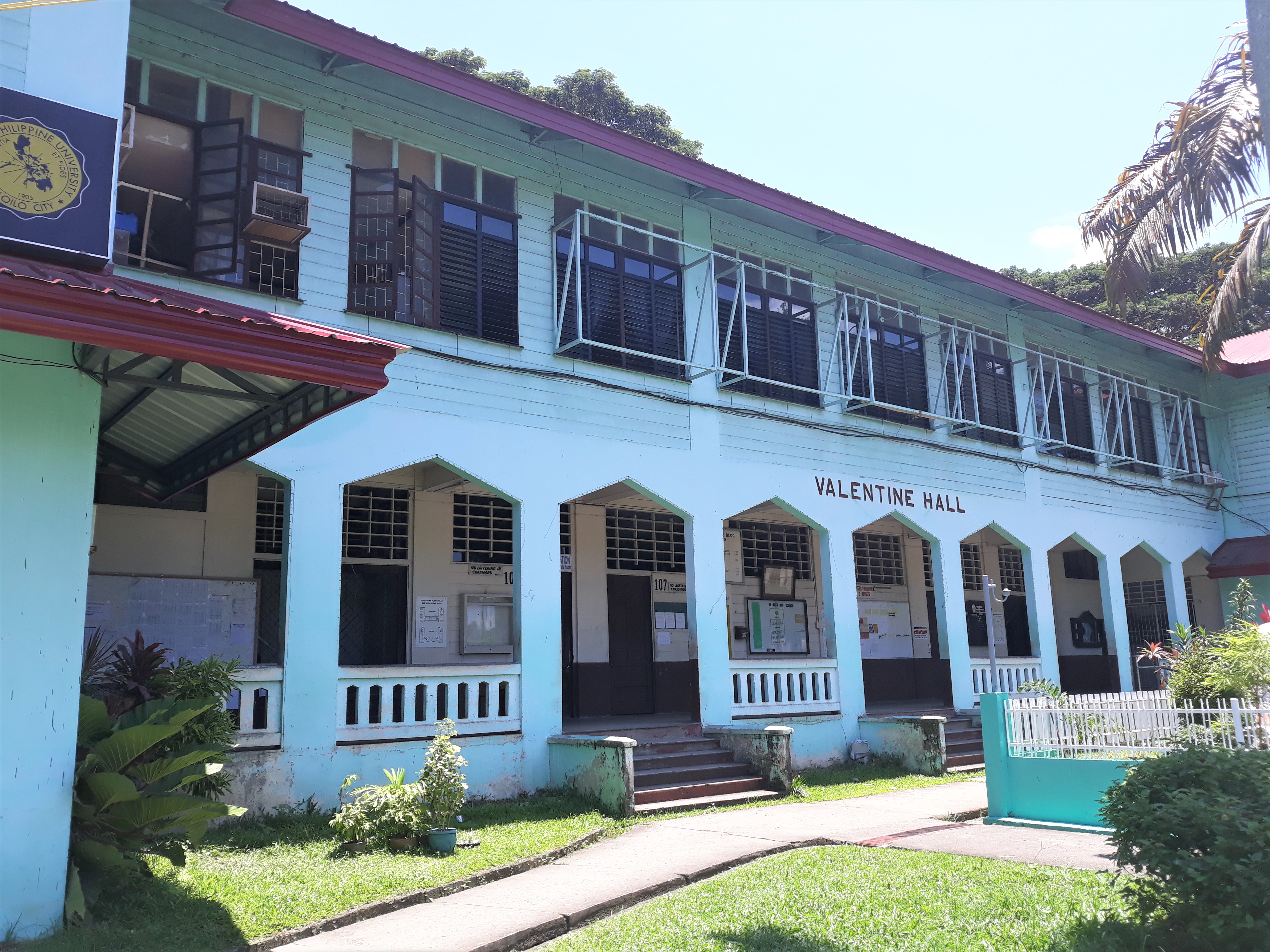 Valentine Hall of Central Philippine UniversityC